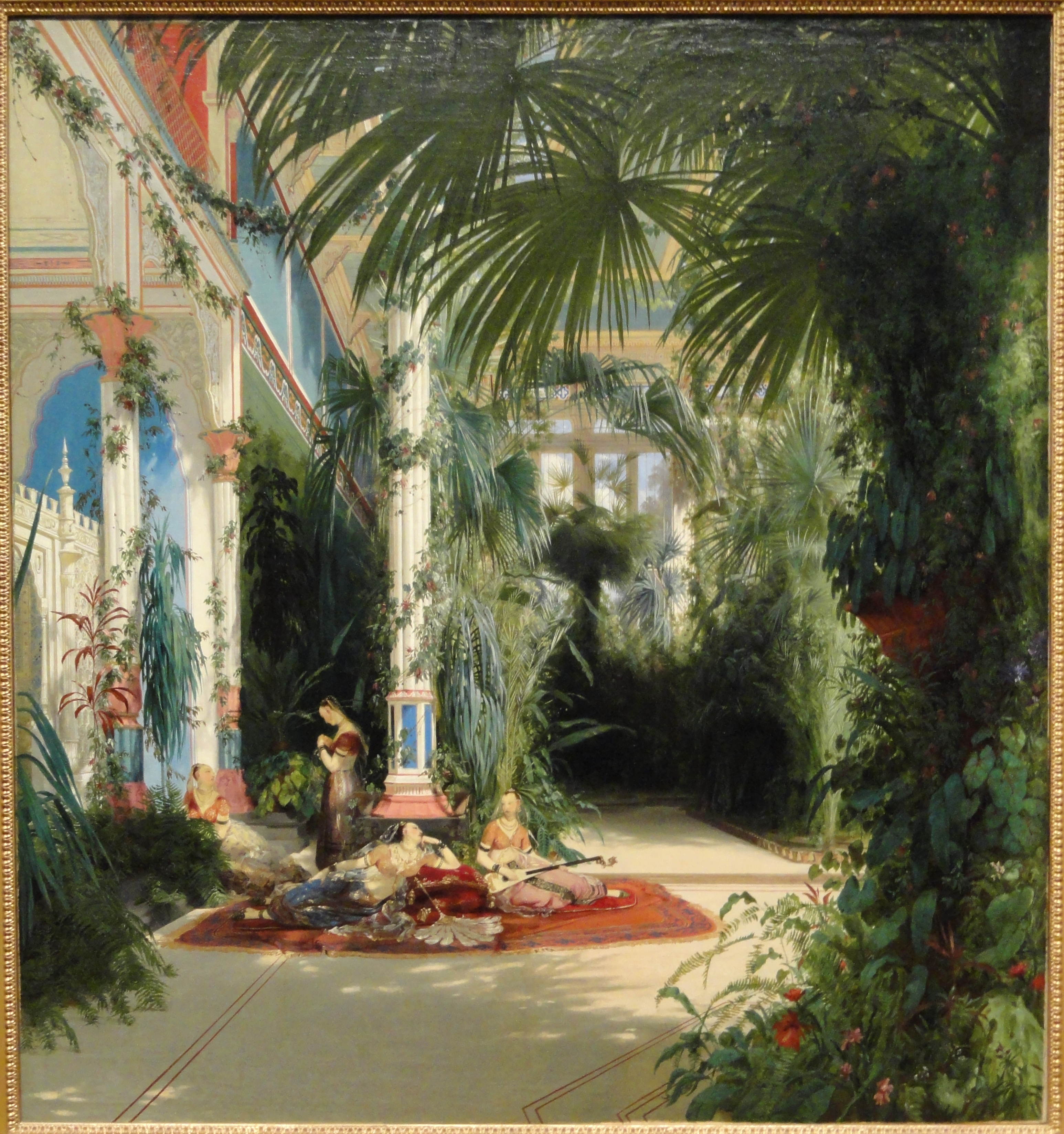 Exhibit in the Art Institute of Chicago, Chicago, Illinois, USA.